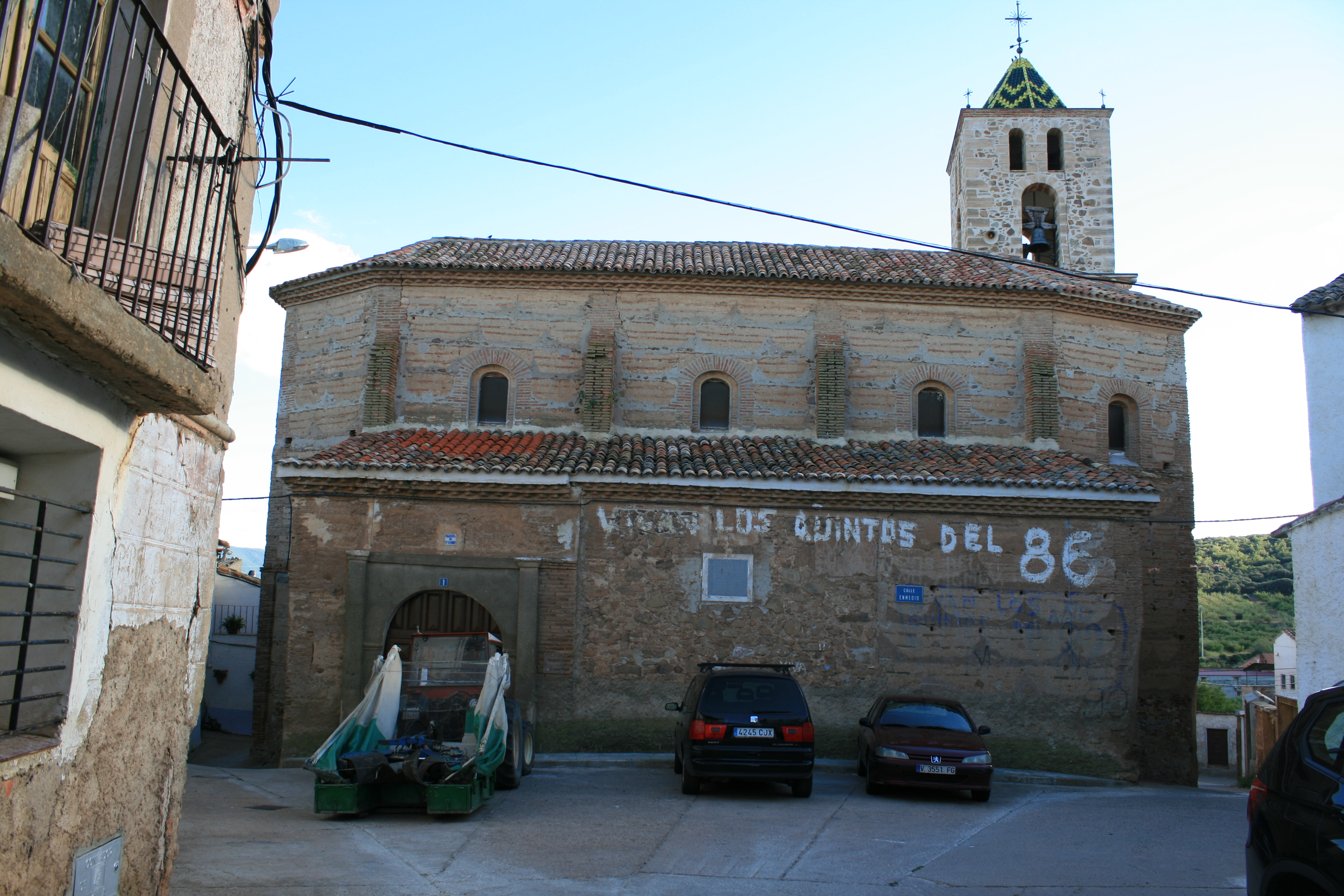 St Andrés church, Alarba, Zaragoza, Spain